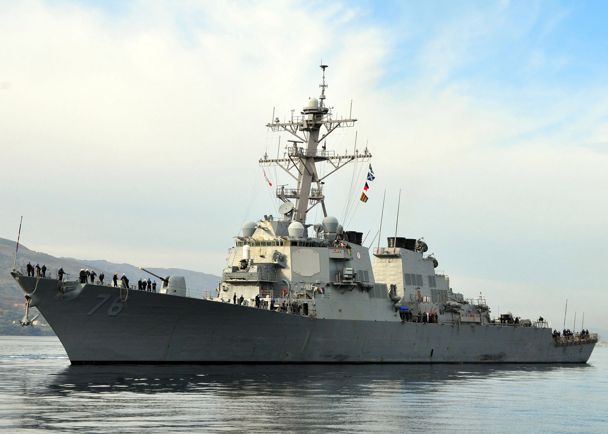 091130-N-0780F-003 SOUDA BAY, Greece (Nov. 30, 2009) The guided-missile destroyer USS Higgins, DDG-76, arrives for a routine port visit to Crete. Higgins was on a scheduled six-month deployment in the Mediterranean Sea.